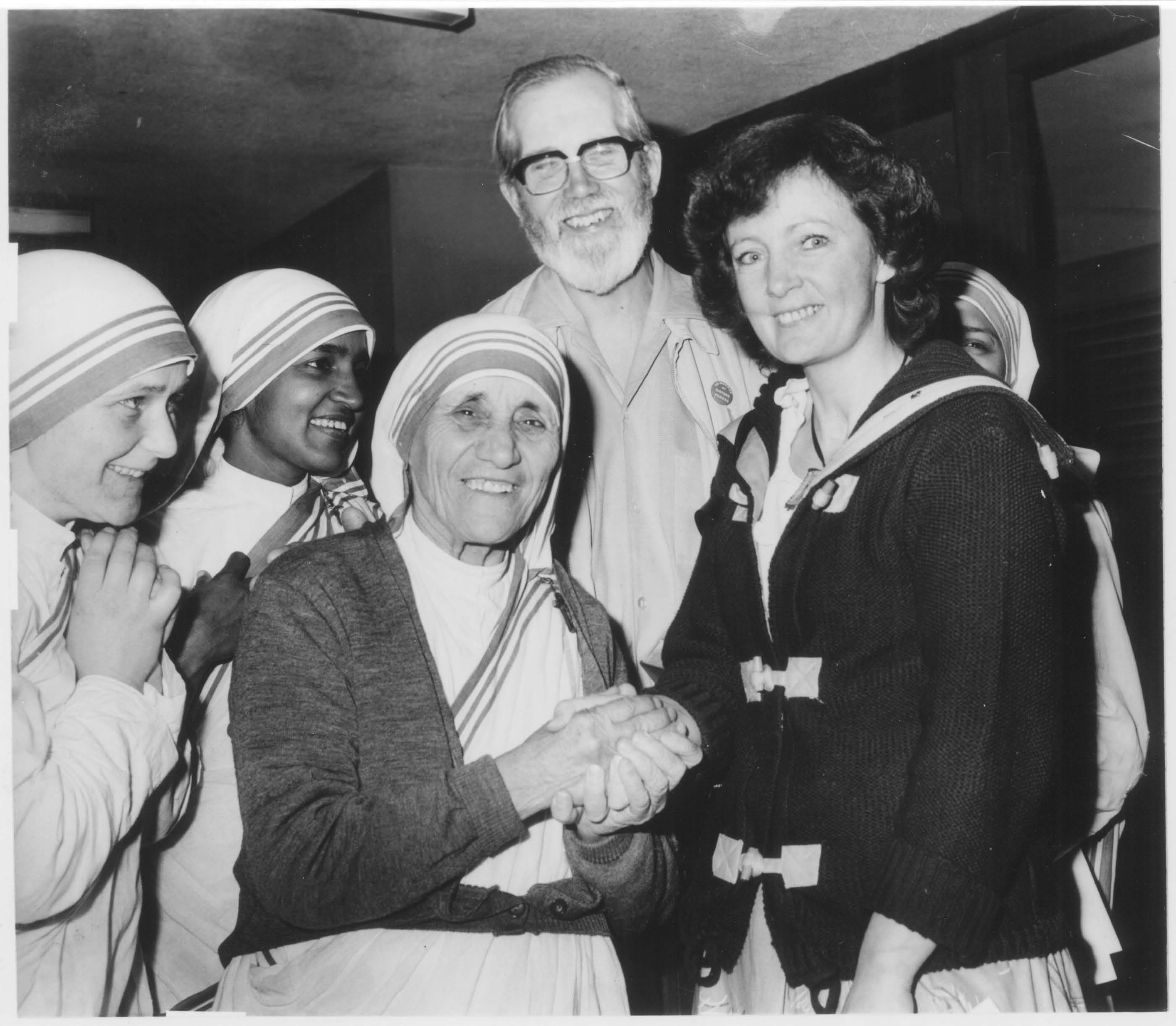 Kay Kelly of Everton, Liverpool, with her old friend Mother Teresa of Calcutta on Lime Street Station in 1980.